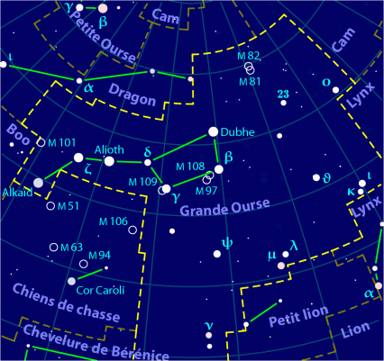 A map of the constallation "Ursa Major" (Great Bear). Made with PP3.